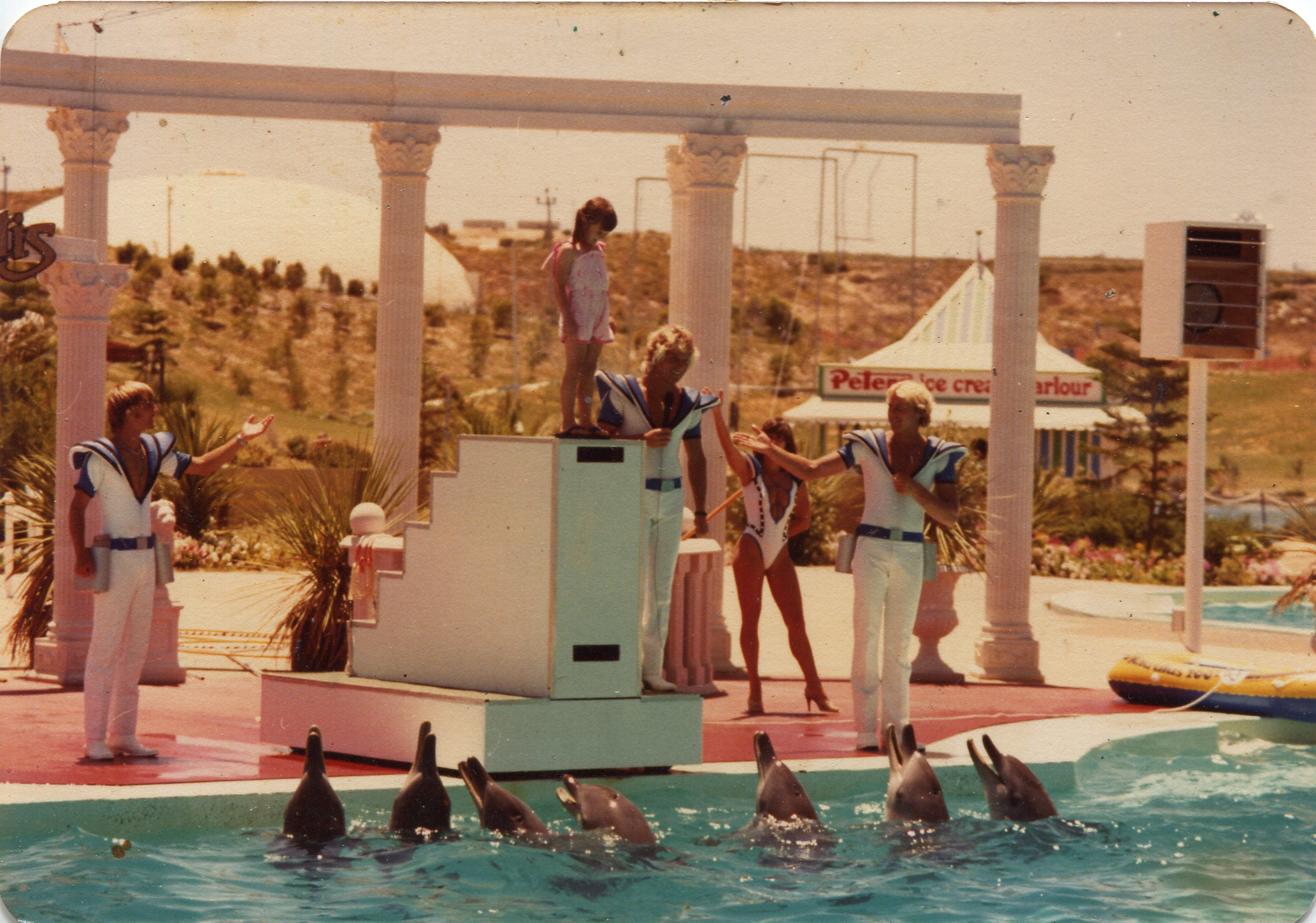 Feeding the dolphins at Atlantis sometime in the 1980s.